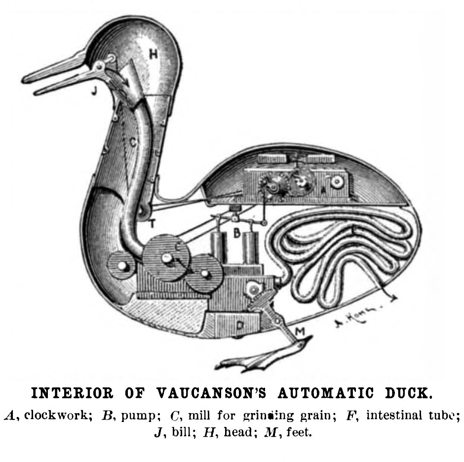 Imaginary rendering of Vaucanson's digesting duck in Scientific American.